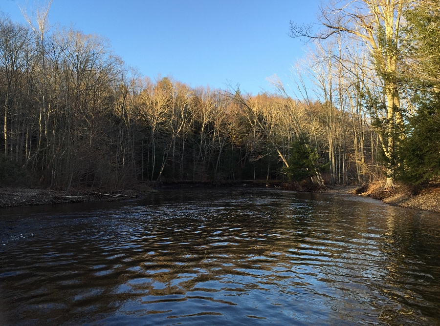 Looking downstream on the Salmon River immediately after the confluence of the Jeremy River and Blackledge River. Photograph was produced during late April.